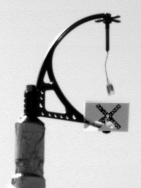 Phoenix Mars spacecraft's MET weather mast on the surface of Mars, as imaged by Phoenix at Sol 2, day 3 after landing to show the tell-tale at 2.3 metre height that indicates wind-strength and direction. This image is a crop and selected gamma 4.01 enhancement of the full image to show the tell-tale reflected in the rectangular mirror: the diagonal black cross is a reflection of the horizontal cross at the top of the thin tube with white dots to indicate wind-strength. The view is approximately South-West, and the tell-tale appears blown towards the camera, which indicates the wind is from the North East. The telltale was made by Denmark's Aarhus University. Original description: This image was acquired at the Phoenix landing site on day 3 of the mission on the surface of Mars, or Sol 2, after the May 25, 2008, landing. The surface stereo imager right acquired this image at 12:52:35 local solar time. The camera pointing was elevation 11.4637 degrees and azimuth 234.767 degrees. Related images: unenhanced low resolution Day 2 image showing different wind direction collage of unenhanced with enhanced day 3 images placed side by side